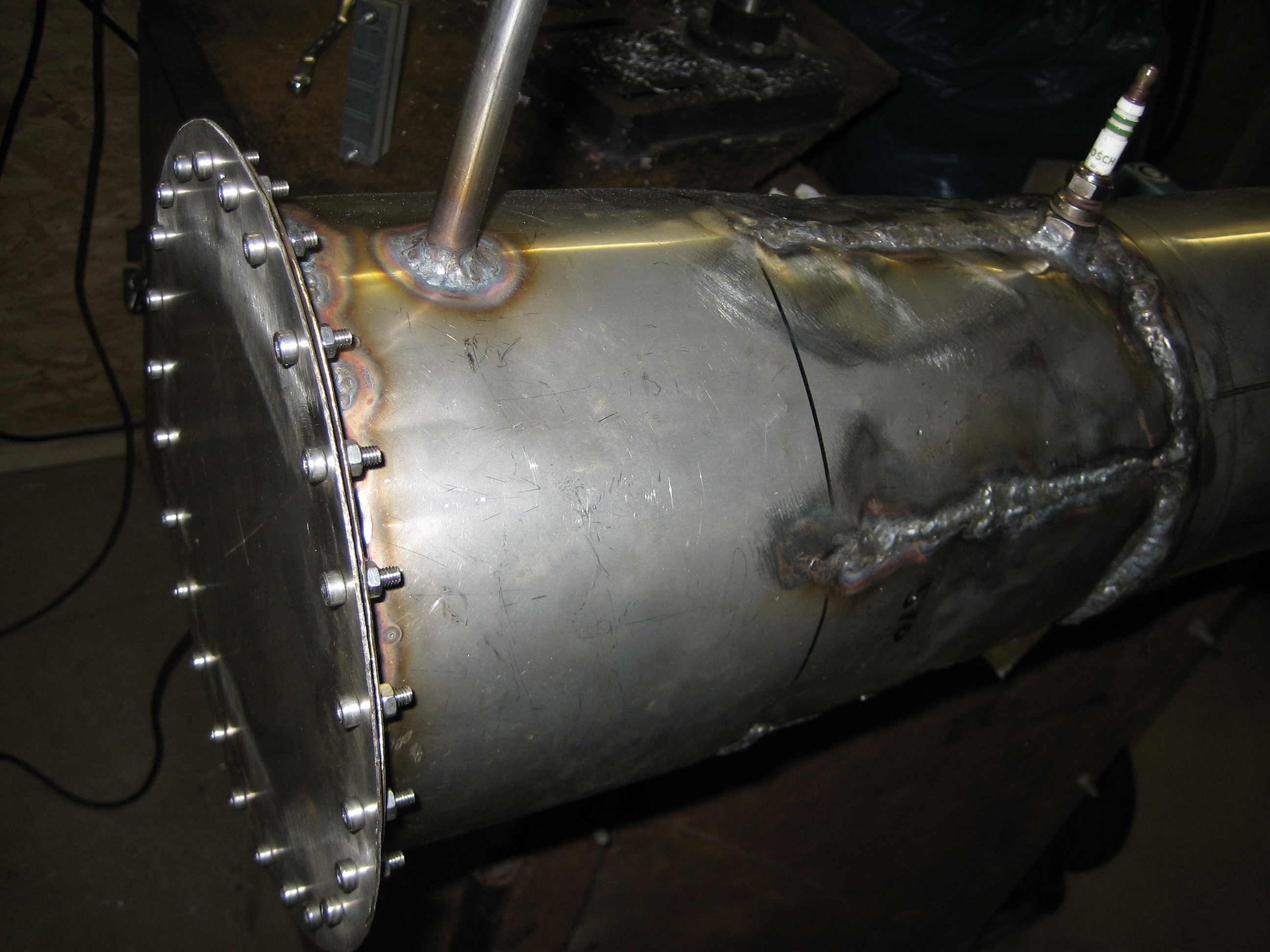 Combustion chamber of pulsjet - Diameter: 180 mm stainless steel